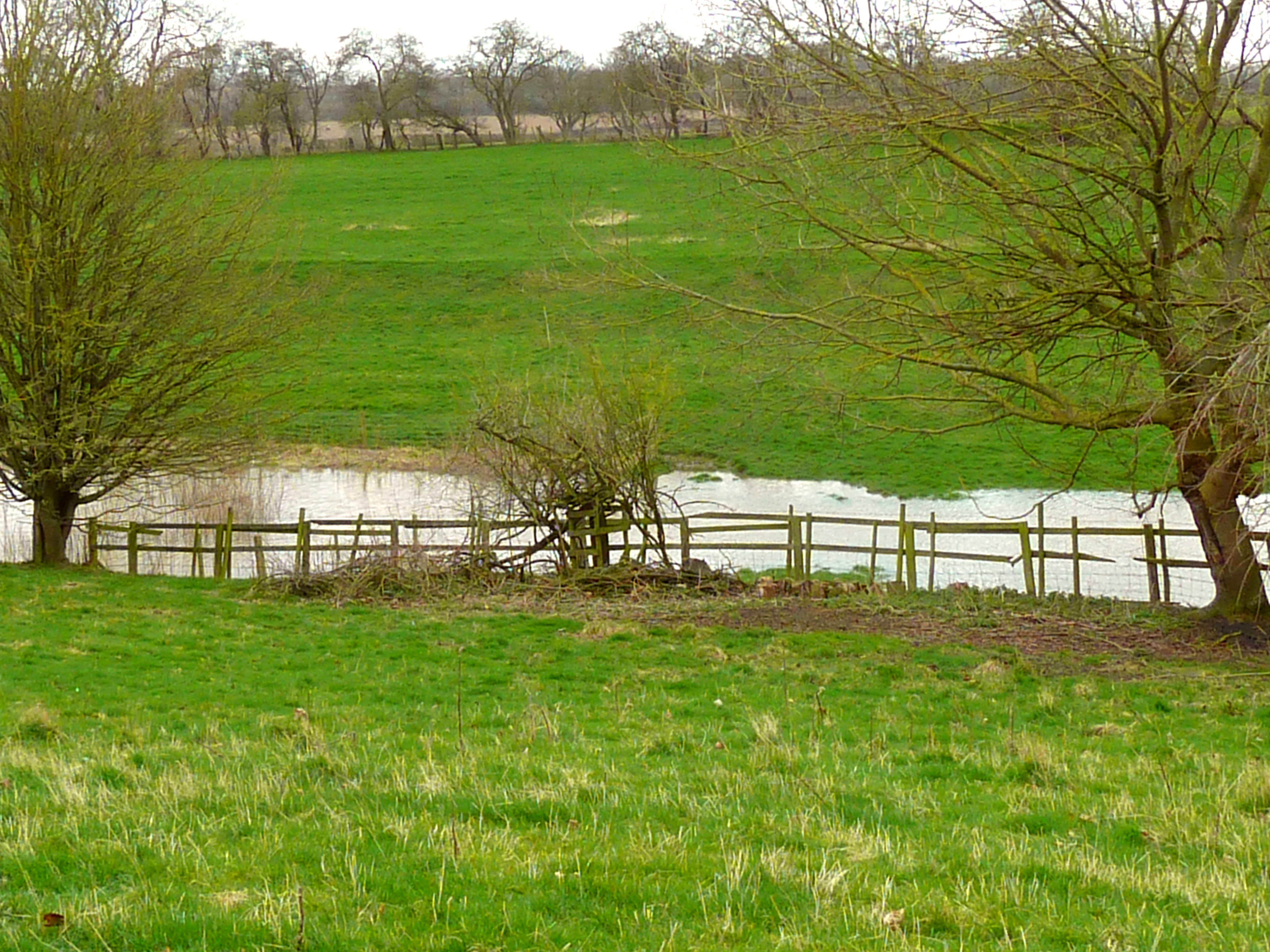 Kirk Deighton Site of Special Scientific Interest. Viewed from Lime Kiln Lane. There is no public access to this site. Showing view over gate, looking south.